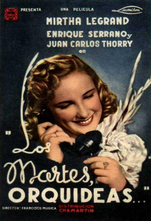 Poster for the 1941 Argentine comedy film Los martes, orquideas